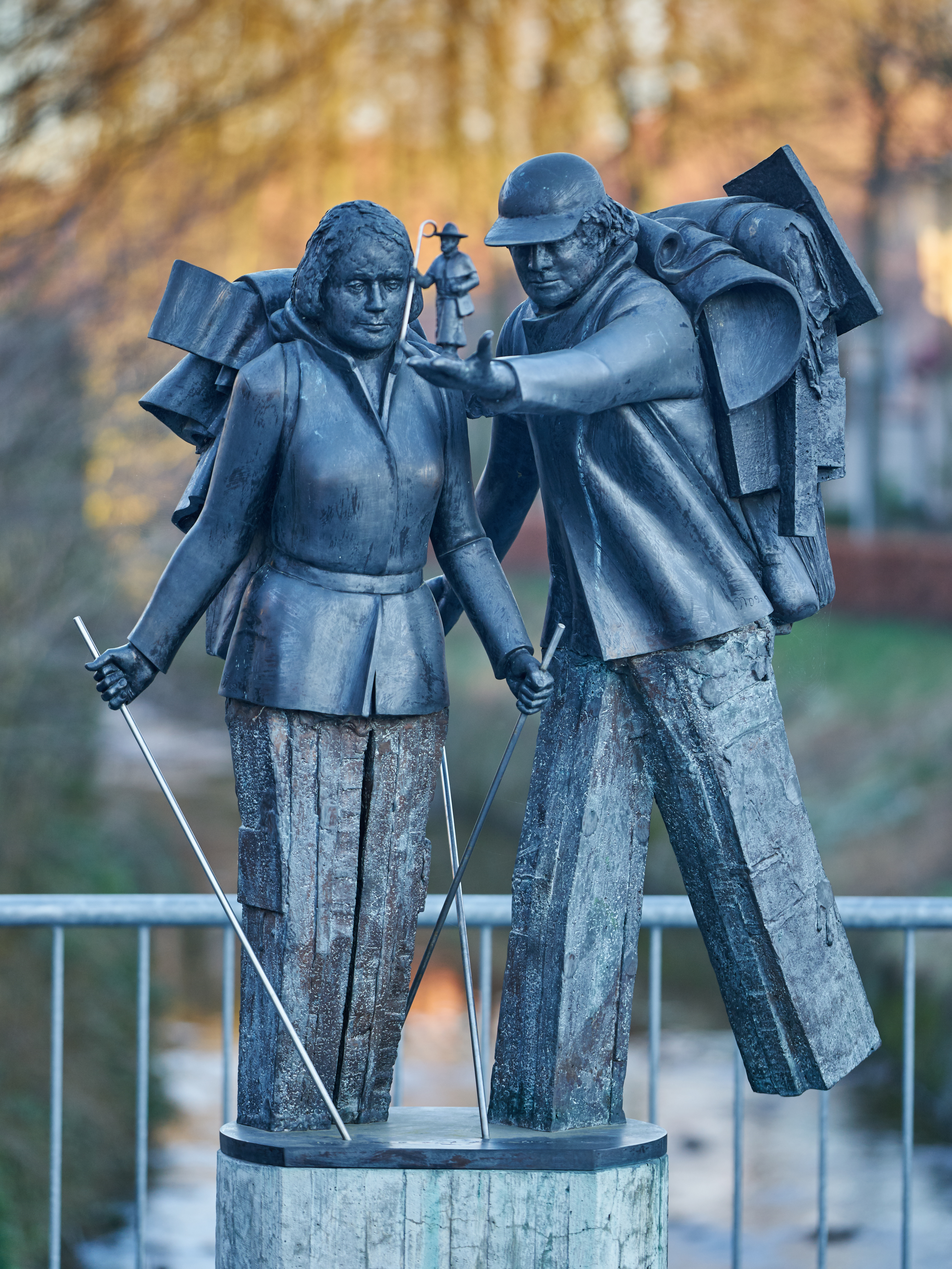 Wir sind auf dem Weg (We are on the Way) is a sculpture by Jörg Heydemann in Coesfeld, Germany.